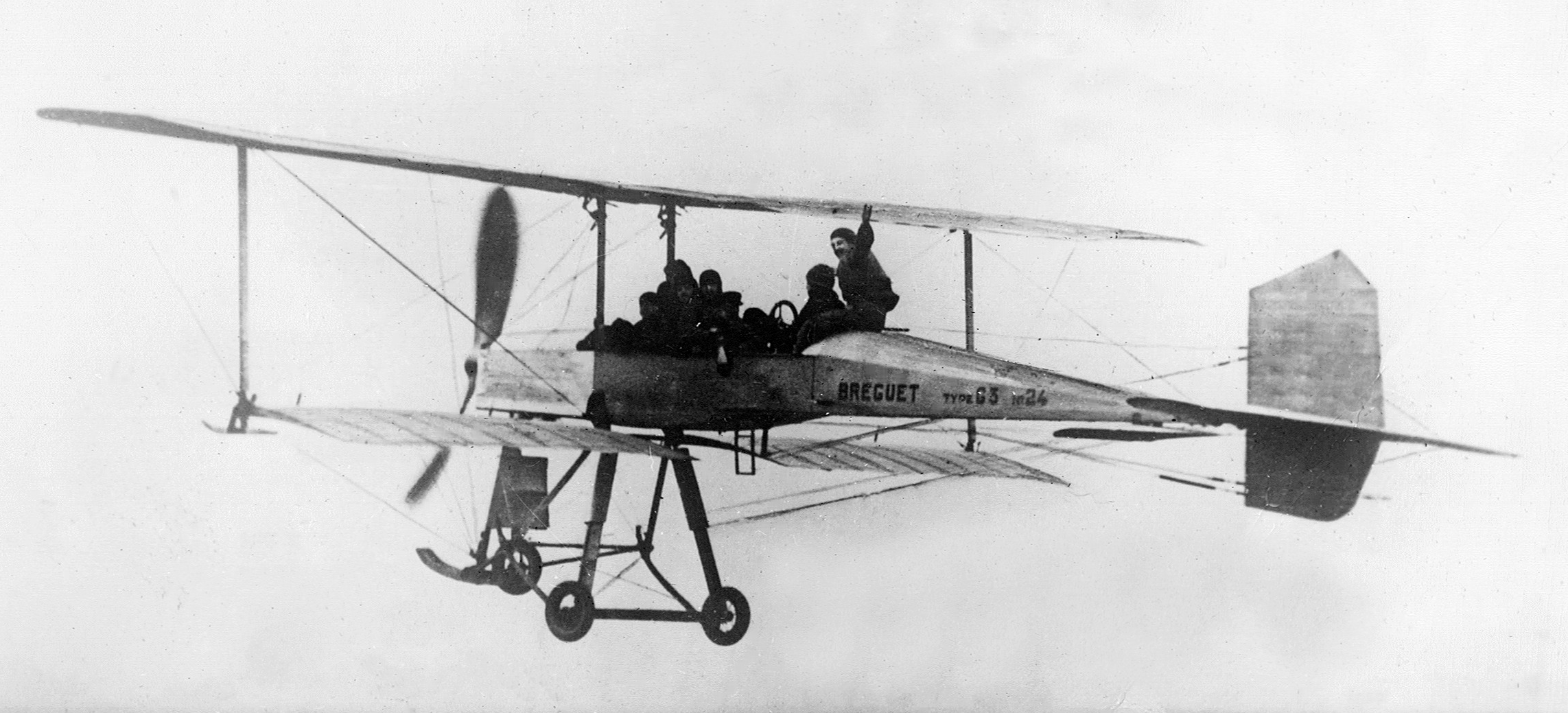 The Frenchman Breguet with around 10 passengers in his plane above the airport of Douai. The plane was airborne around 10 minutes with speeds up to 100 km/h. We are on our way to the introduction of an airtram, and who knows some years from now, complete trains will snore above our heads. The 20th century brings wonders.